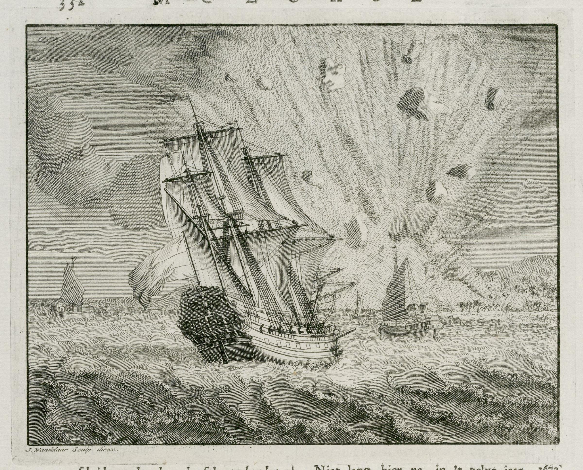 The Gammacanorre volcano erupts in 1673. The illustration is taken from the work 'Oud en Nieuw Oost-Indiën' by François Valentyn. In the foreground an East Indiaman is depicted.